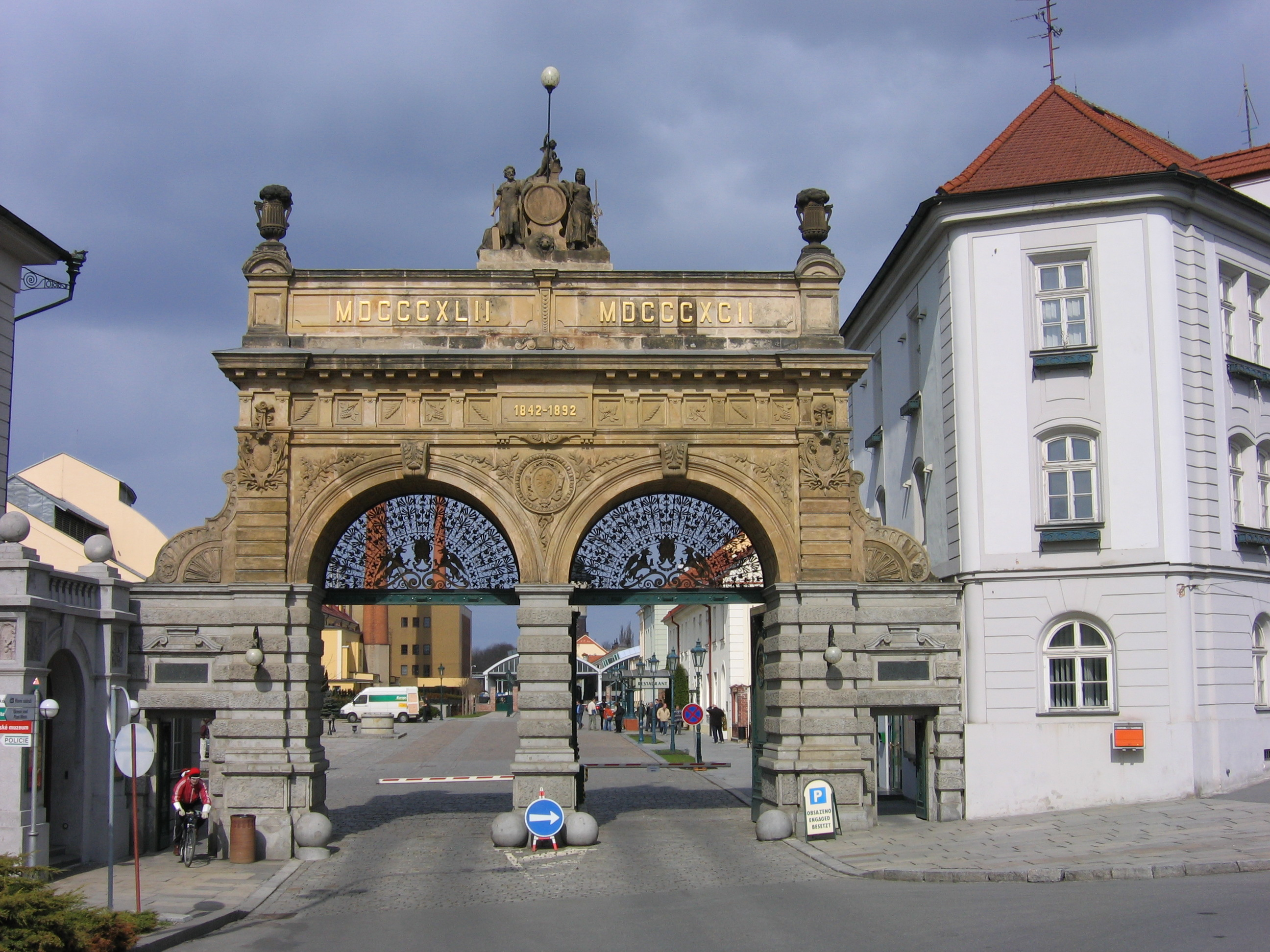 City of Plzeň, Czech Republic. Pilsen, Tschechien. Gate to the Pilsen beer Brewery.